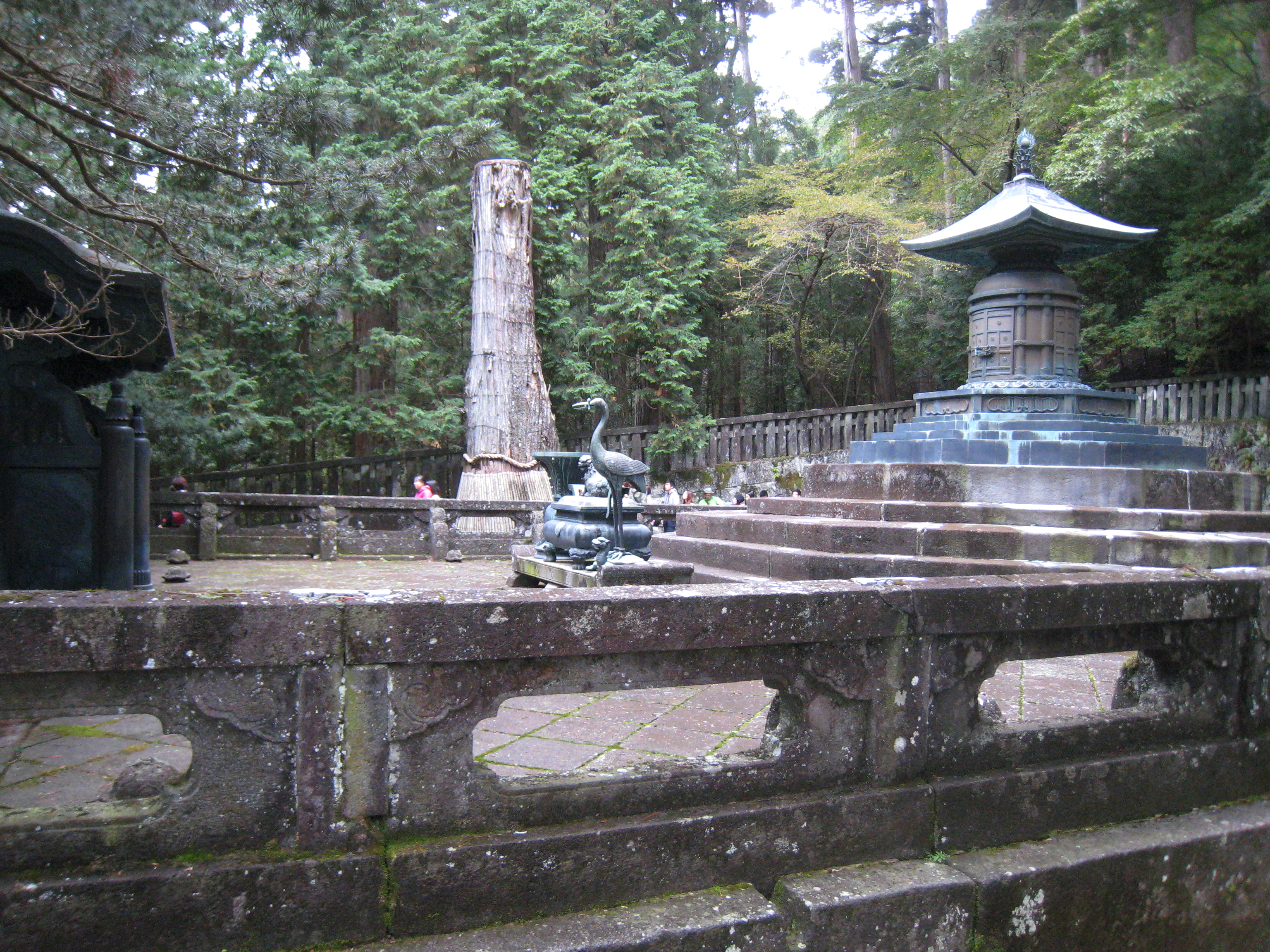 Bronze urn of Tokugawa Ieyasu